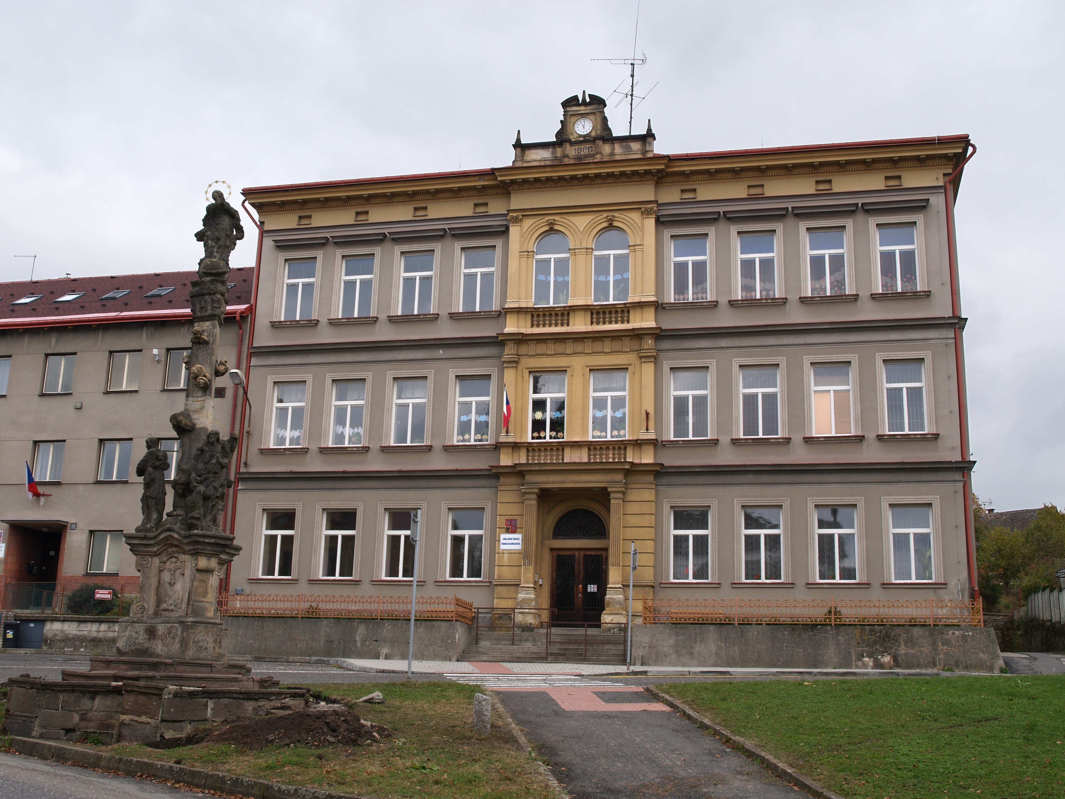 Czech town Semily—Basic school, named after Czech writer Ivan Olbracht, born 1882 in Semily